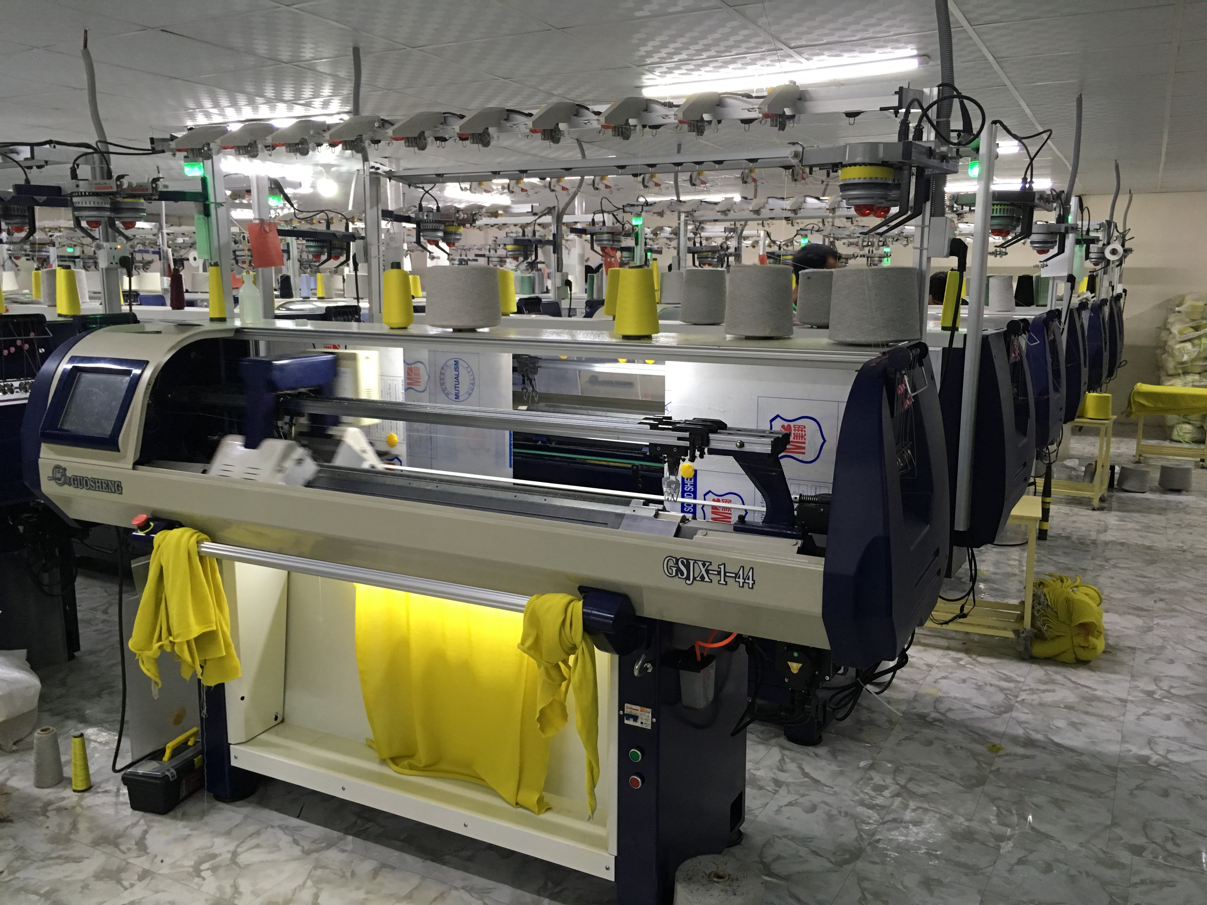 This is Computerized Flat Knitting Machine (Jacquard Machine). Using it Sweater Industries for making sweater as per buyer requirement.